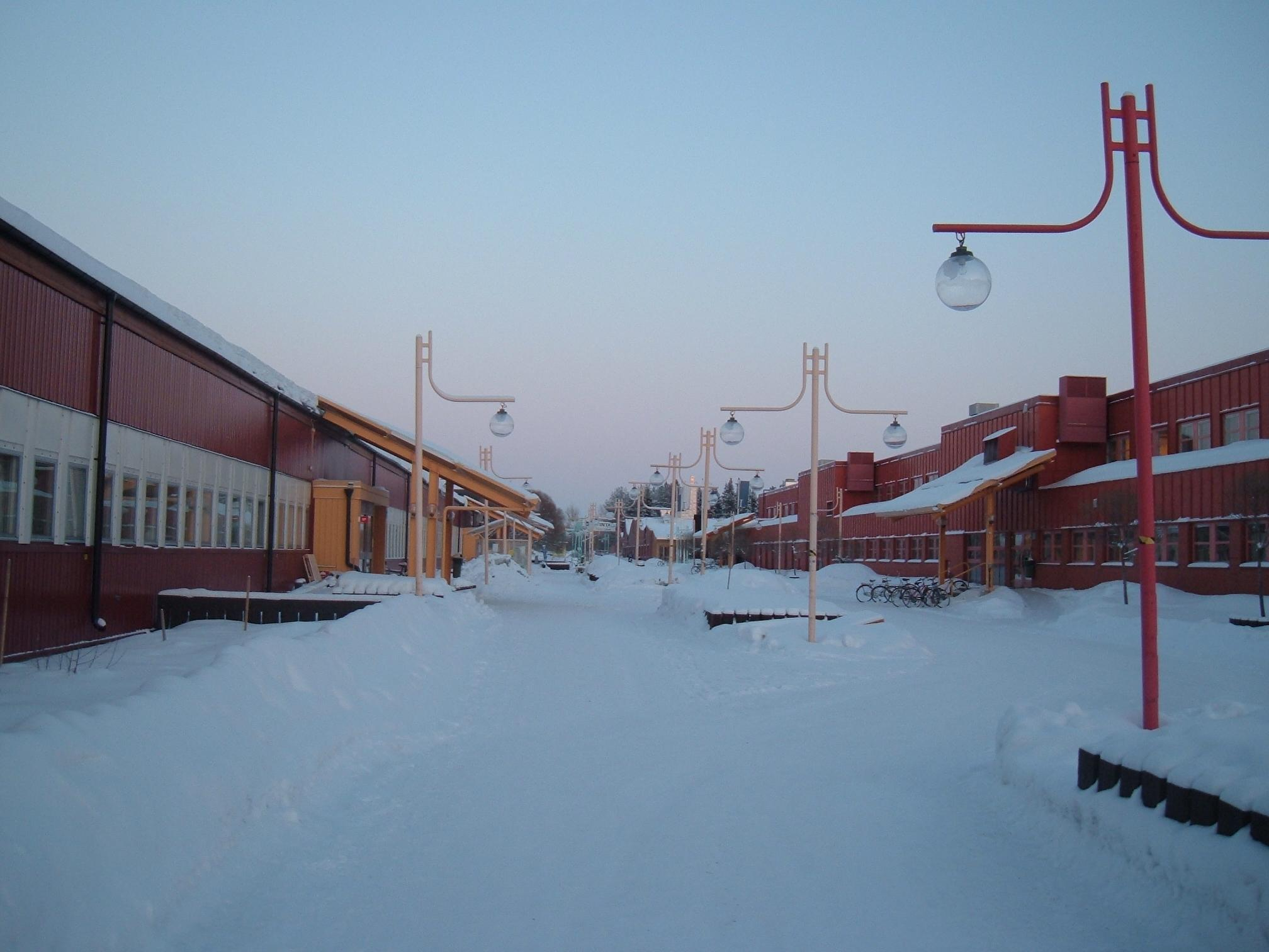 Luleå University of Technology